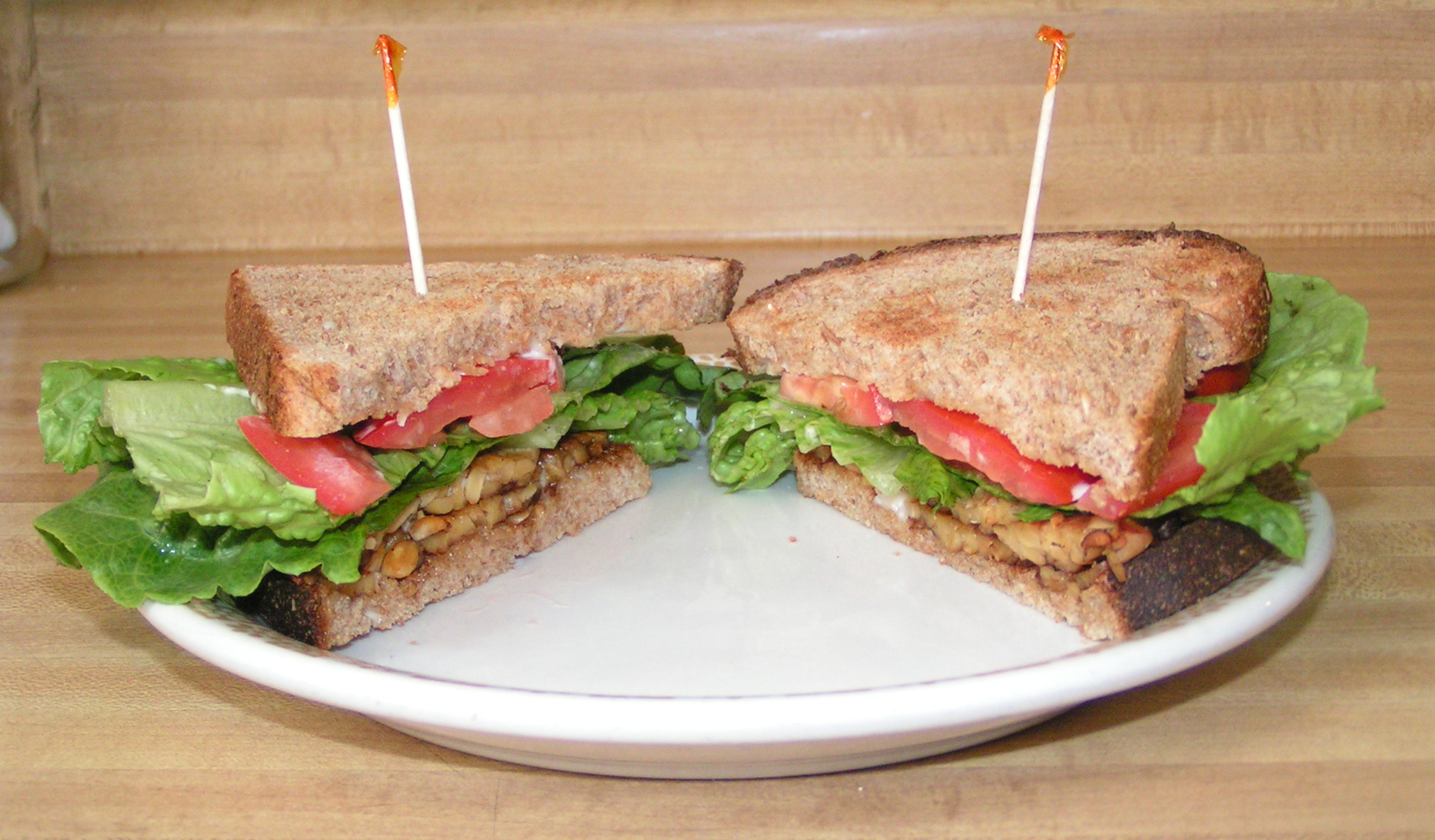 A TLT (tempeh, lettuce and tomato) sandwich from Hard Times Cafe.